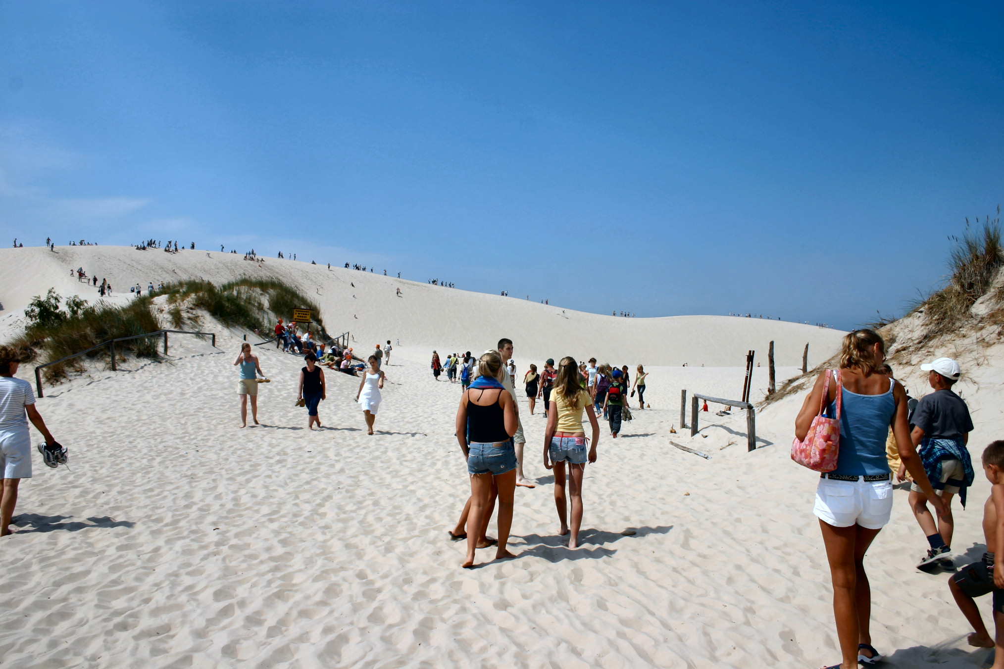 On a warm summer day near Łeba thousands of beach-goers frolic on the enormous white sand dunes. Medicaster (talk) 19:29, 8 December 2007 (UTC)Medicaster